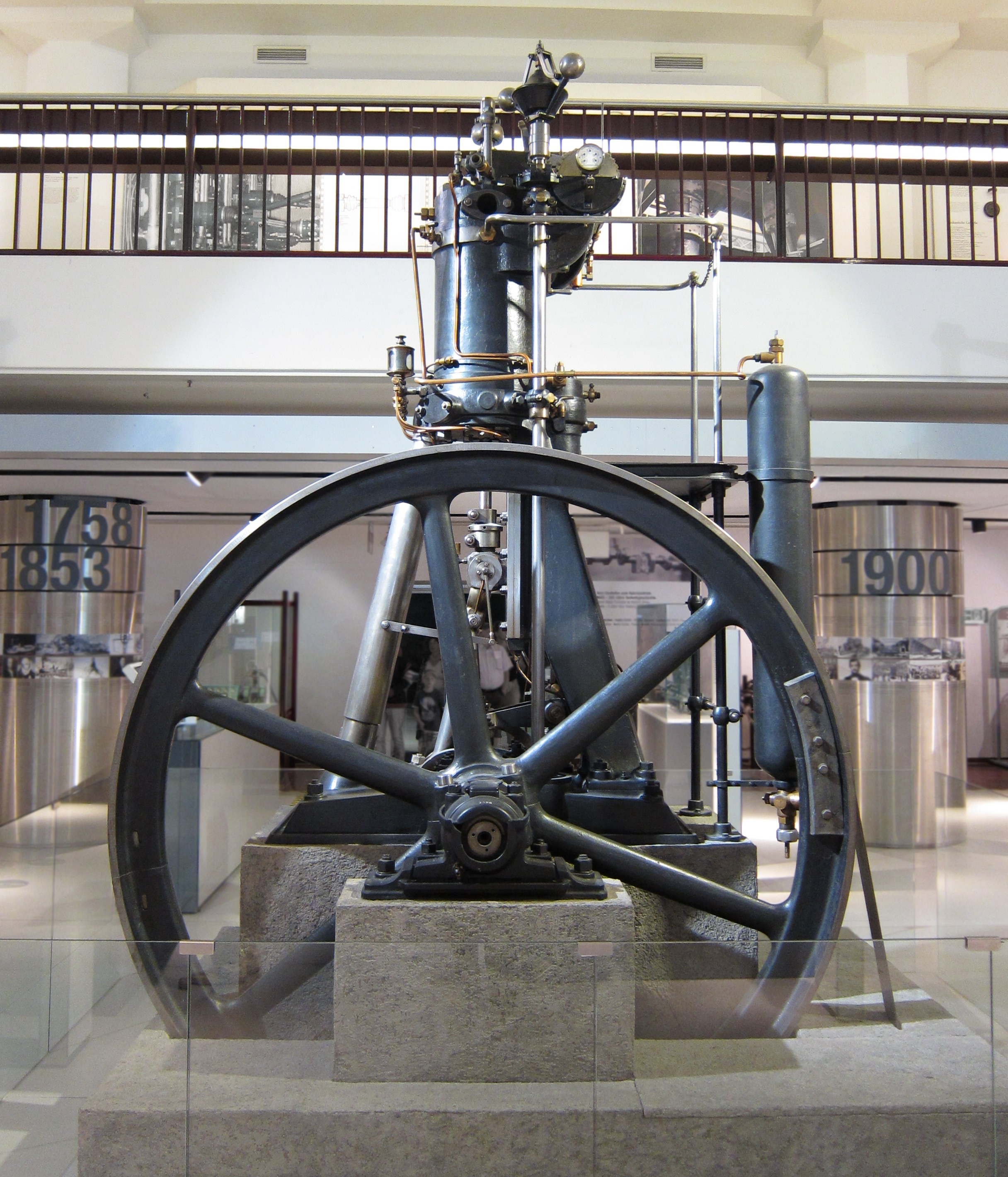 Historical single-piston Diesel engine displayed in the Deutsches Museum, München.